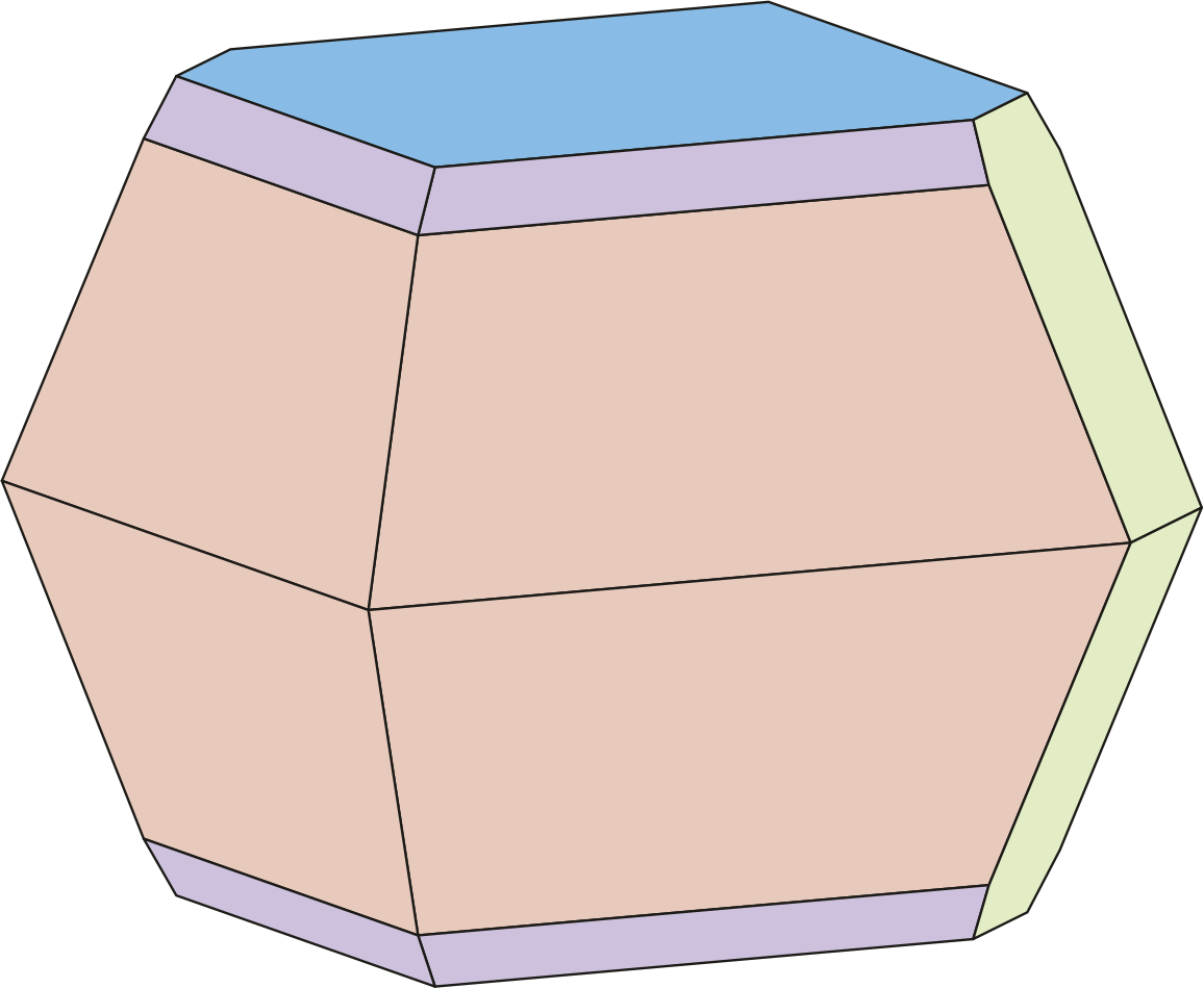 Drawing of a Pucherite crystal from Minas Gerais; reference: Danas System of Mineralogy, 7. edition, volume II, page 1051